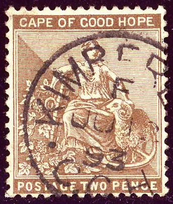 2 pence Cape of Good Hope issue 1884, deep bistre, KIMBERLEY circle cancel in 1893. SG N°50a.